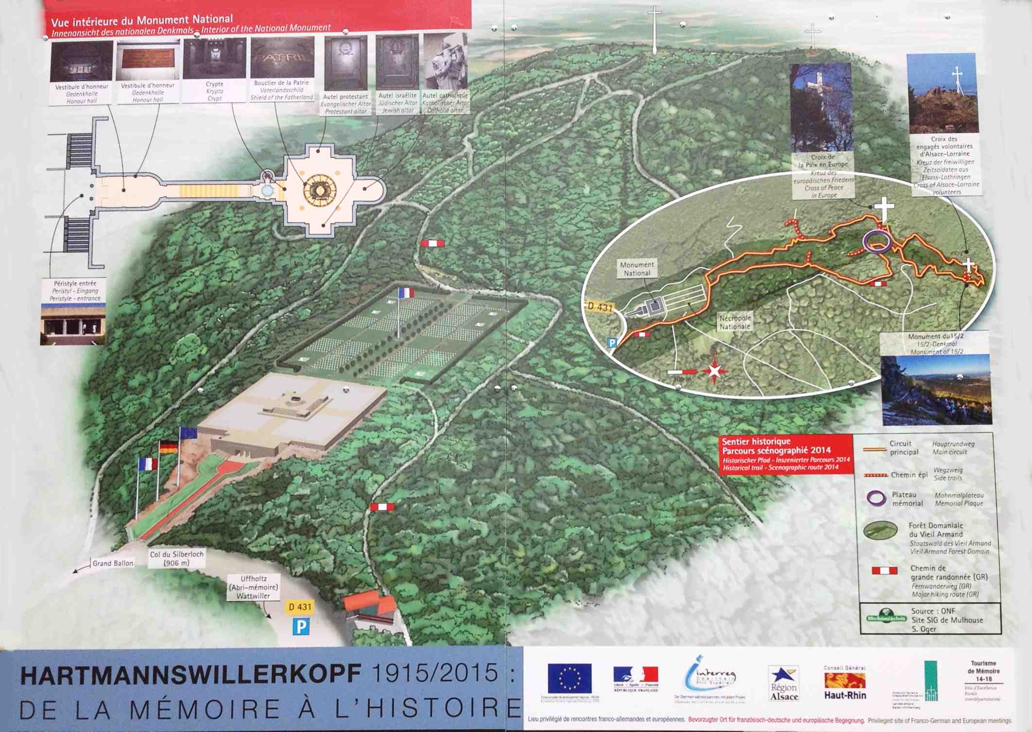 Map of area Hartmannwillerkopf. Seen at public noticeboard close to war momument. September 2012